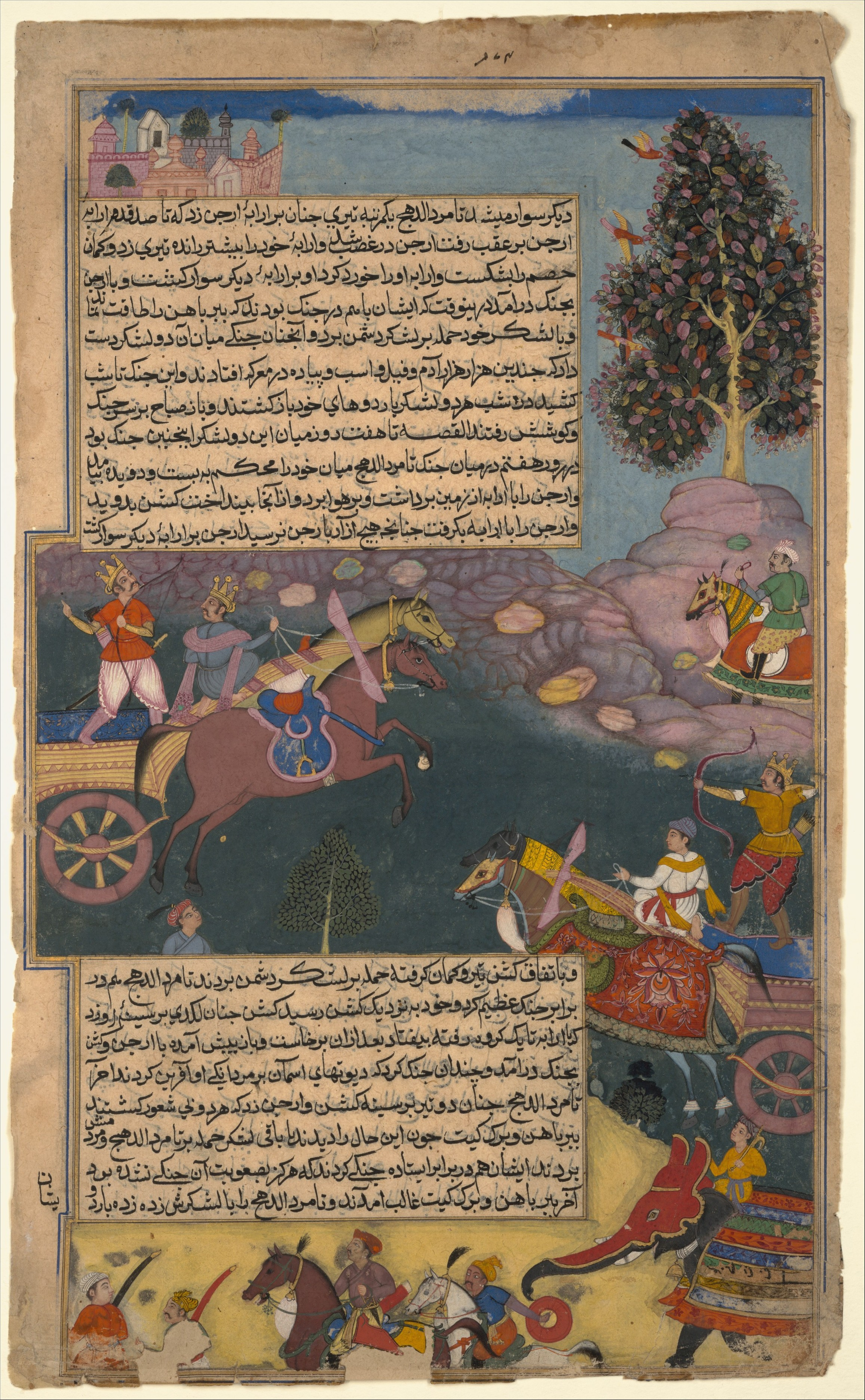 Leaf from the Razmnama, ca. 1616–17; Mughal, period of Jahangir (1605–27)IndiaInk, colors, and gold on paper H. 15 1/2 in. (39.3 cm), W. 14 1/2 in. (37 cm)Rogers Fund, 1955 (55.121.30)1 Akbar was the first of the Mughals to commission Persian translations of Sanskrit works out of a genuine interest in the literature and religion of the Hindu subjects over whom he ruled. Later emperors and other Muslim nobles followed his lead. This folio has come from a copy of the Mahabharata (known in Persian as the Razmnama) made for cAbd al-Rahim ibn Muhammad Khan-i Khanan, army commander to Akbar and then Jahangir. Long in the service of the Mughals in a military capacity, cAbd al-Rahim was also placed in charge of translating Babur's memoirs into Persian from Chaghatay Turkish, which reflects his literary interests. Though many others of his status had fine libraries, he was one of the few nobles who had books created for him, and six manuscripts are known to have come from his workshop of twenty artists. Like Akbar, he commissioned copies of the Ramayana and a ragamala as well as the classic Khamsa of Dihlavi and the Panj Ganj of Jami. The Mahabharata is the story of the legendary war between the clans of the Kauravas and the Pandyas. The scene depicted here is the Battle of Arjuna and Raja Tamradhvaja. The painting cycle in cAbd al-Rahim's book is the same as in Akbar's, and the large blocks of text that form part of the picture frame reflect the practice of the imperial atelier at that time.